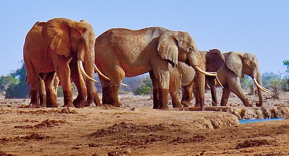 Cropped picture of elephants at a waterhole on June, 14, 2012 near Satao Camp, Tsavo East wildlife reserve in Kenya